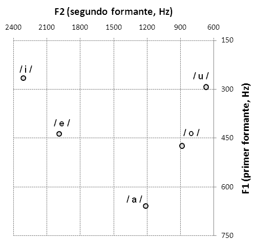 Quilis & Esgueva (1983) measures of formant values for the fiive monophthongs of Spanish.